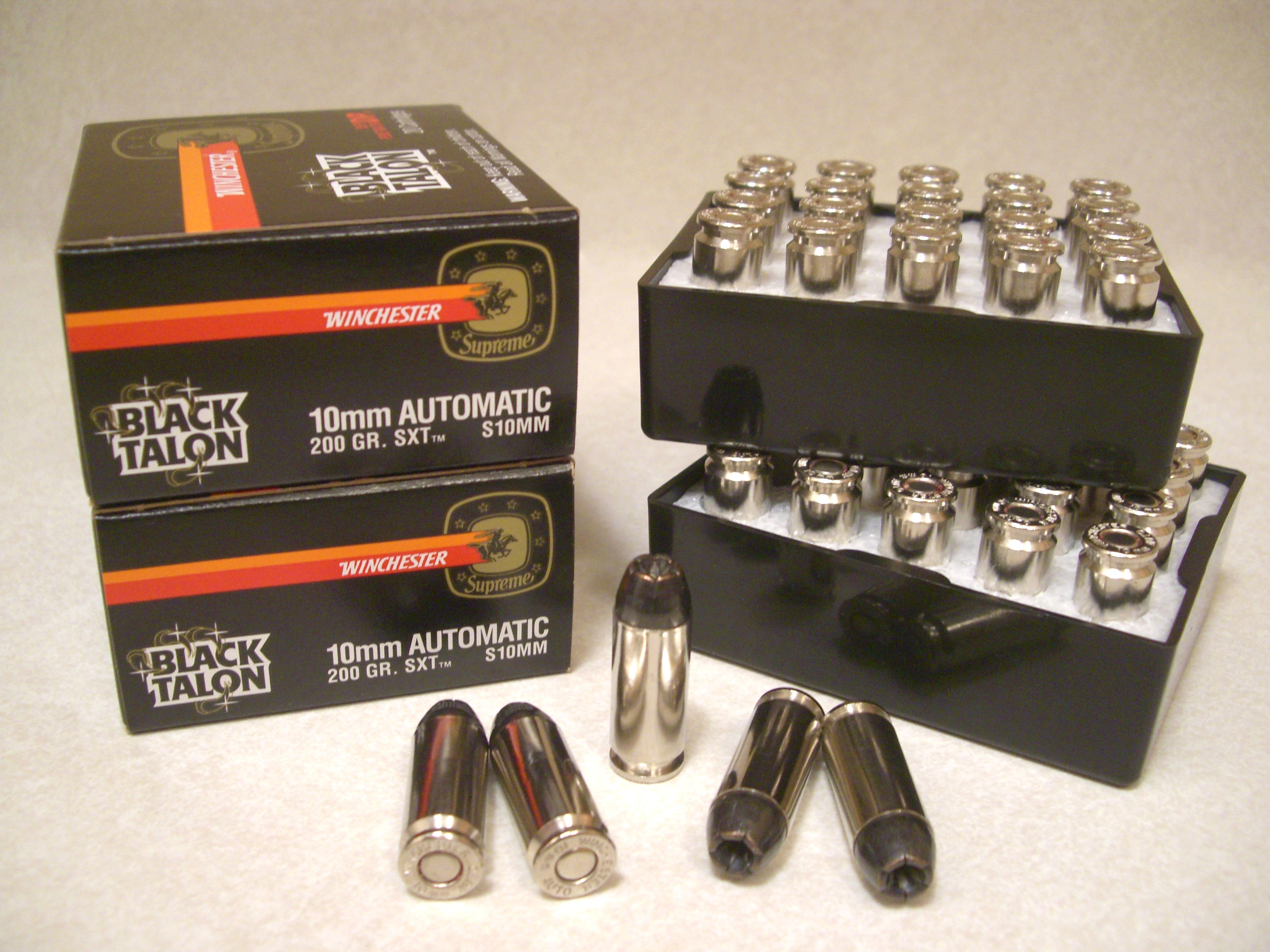 Two boxes of Winchester Black Talon 10mm SXT